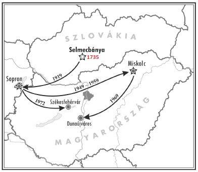 The successor institutions of the Bergschola in Hungary (map)